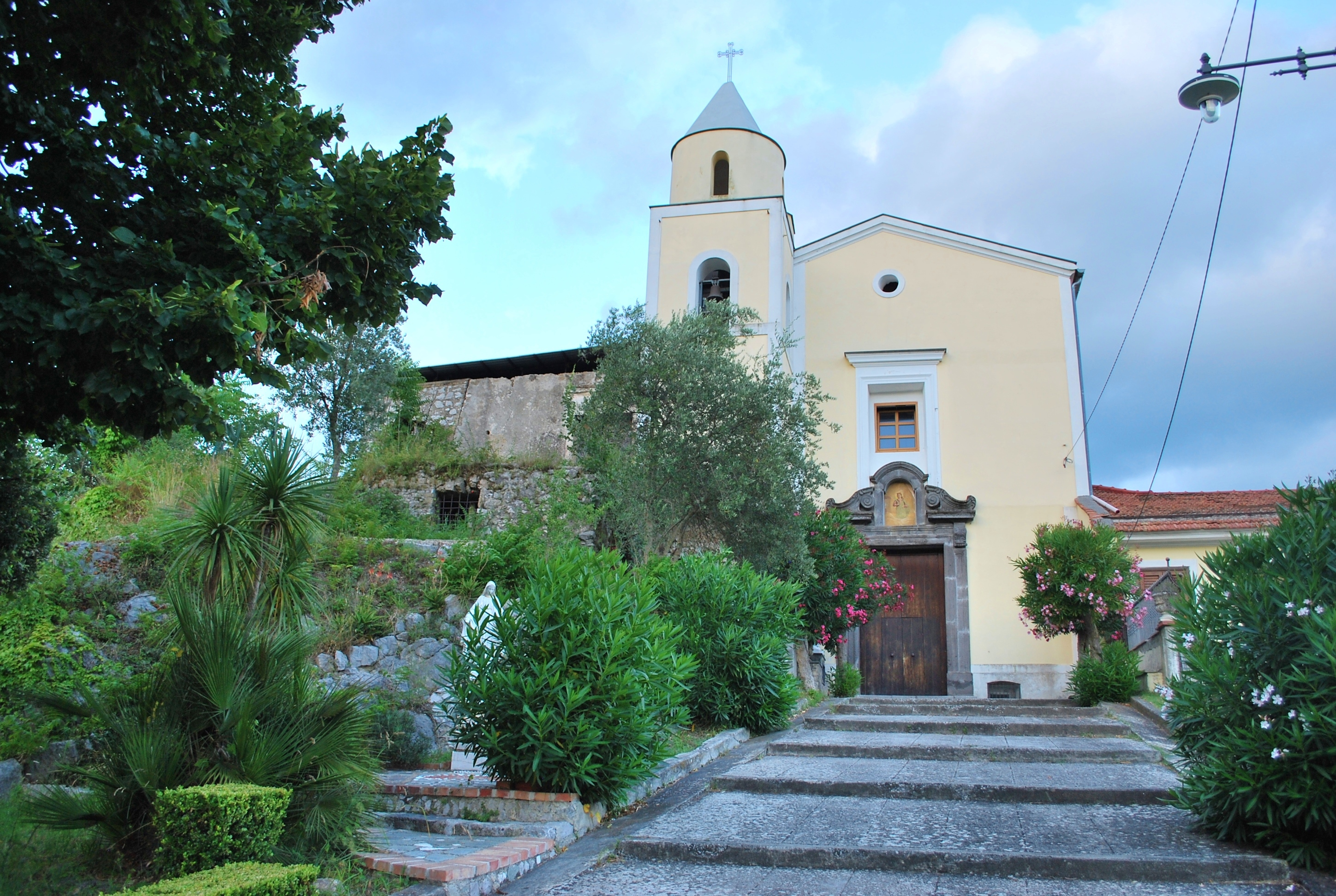 Saint Barbara church in Torello - Castel San Giorgio (SA)